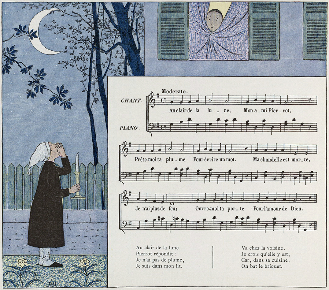 "Au Clair de la Lune", traditional French folk song, reprinted in a French children's book Vieilles Chansons pour les Petits Enfants: Avec Accompagnements